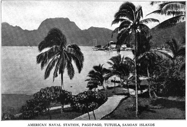 American Naval Station, Pago Pago, Tutuila, Samoan Islands From Frank Coffee's 1920 book Forty Years On the Pacific